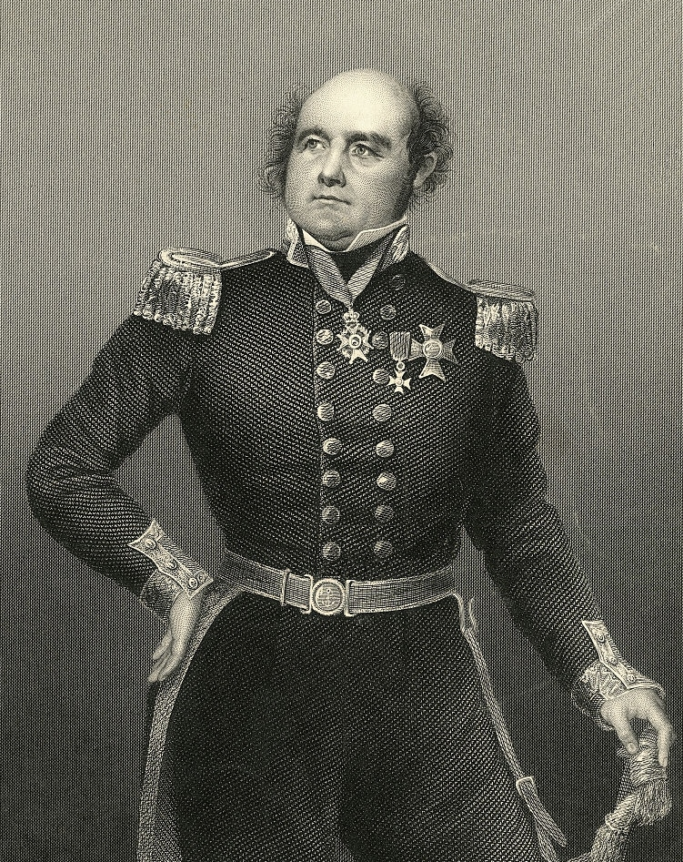 Sir John Franklin (1786–1847), English sea captain and Arctic explorer.